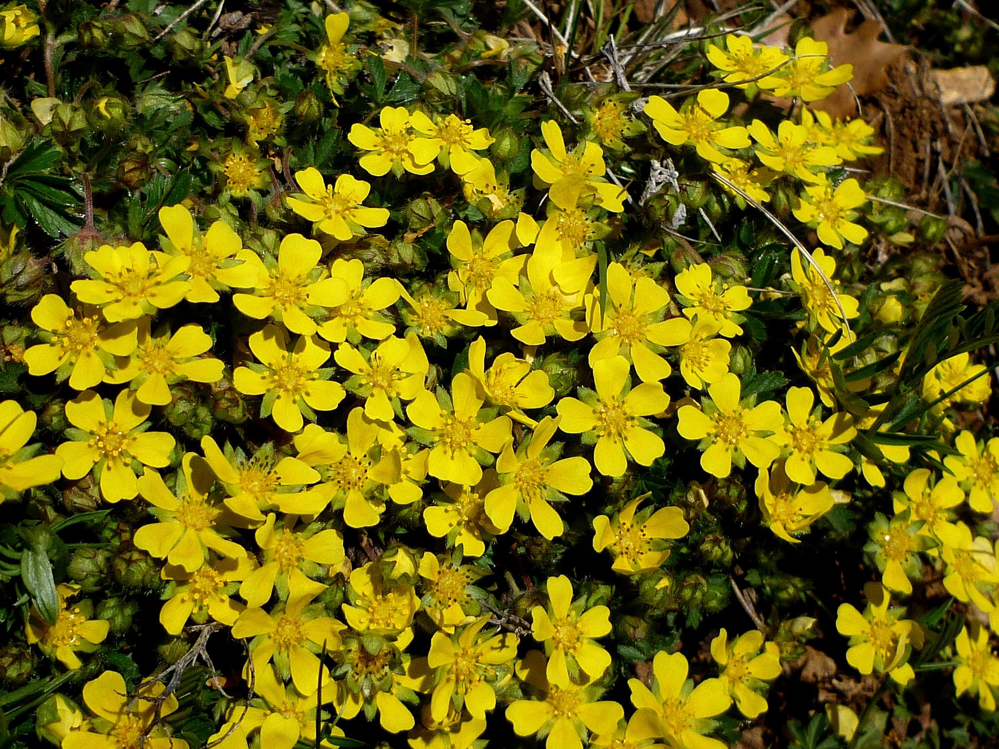 Potentilla neumanniana. In Montcalb (Solsonès-Catalunya). To 1.350 m. altitude